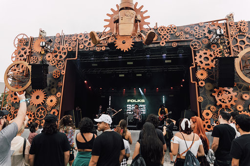 palco supernova folks rock in rio